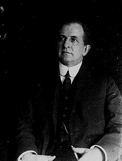 Reynold Janney